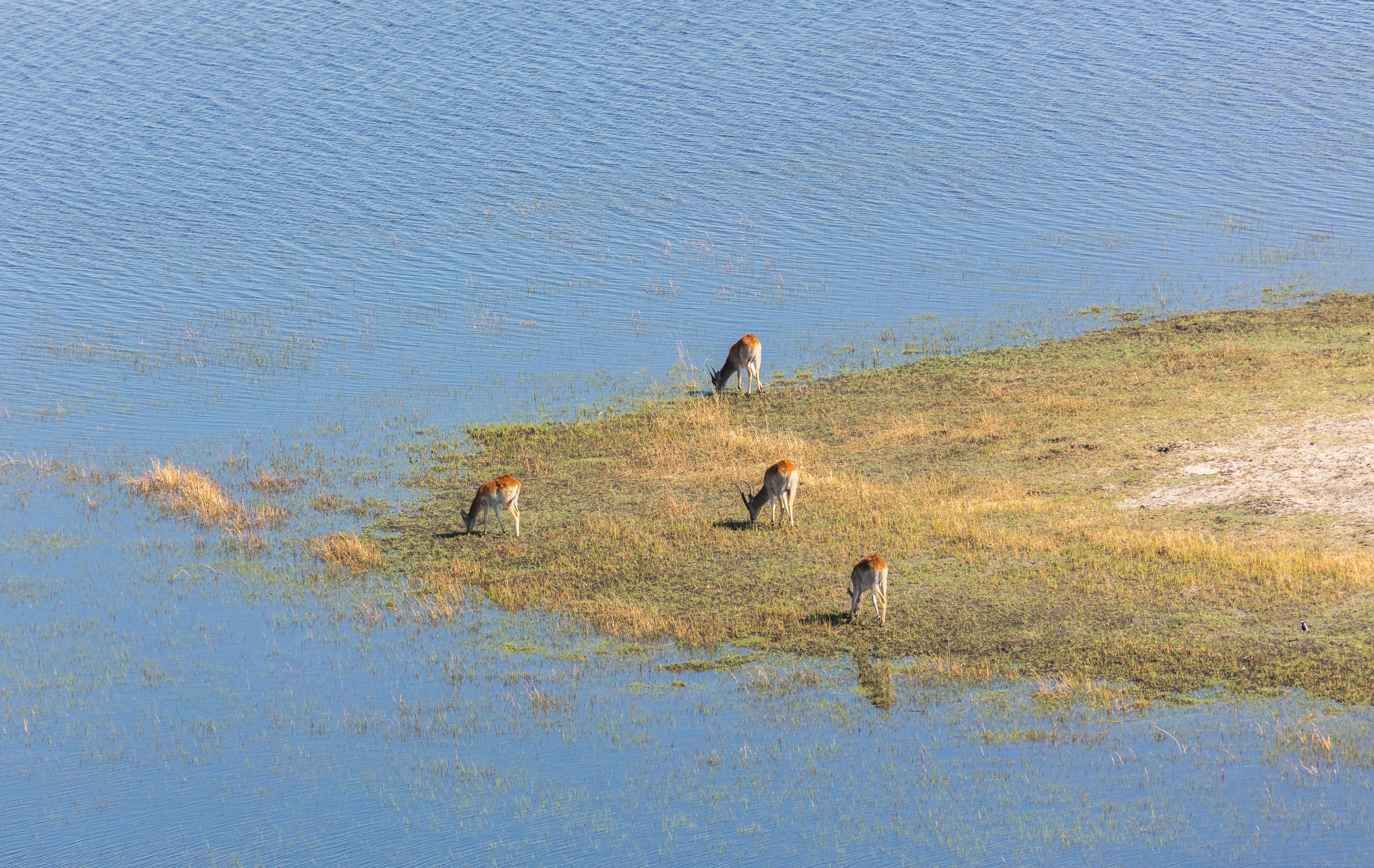 Lechwes (Kobus leche), Okavango Delta, Botswana